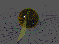 Mobius transformation, showing stereographic projection between plane and sphere. Generated with POVRAY. Povray file created with a java program.